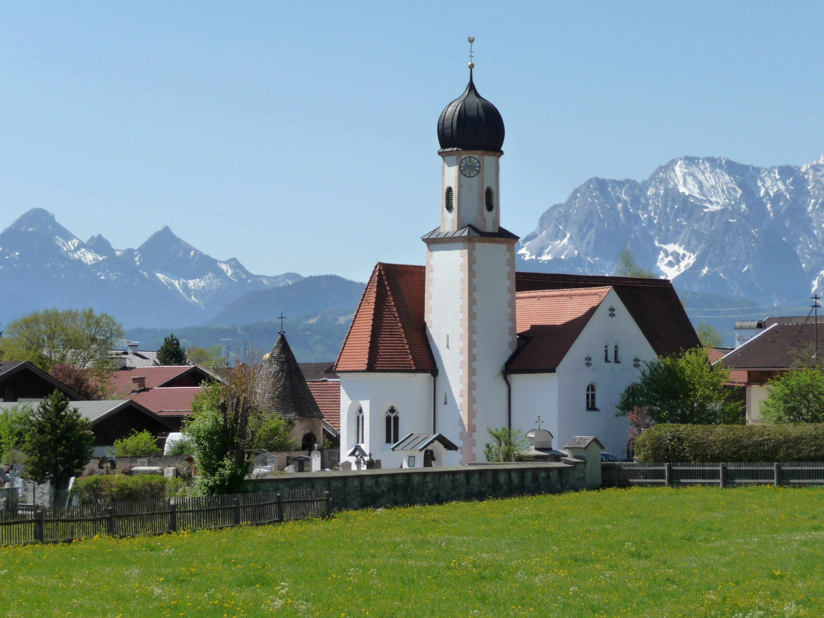 Parish church St James ("St. Jakob"), Wallgau, Germany